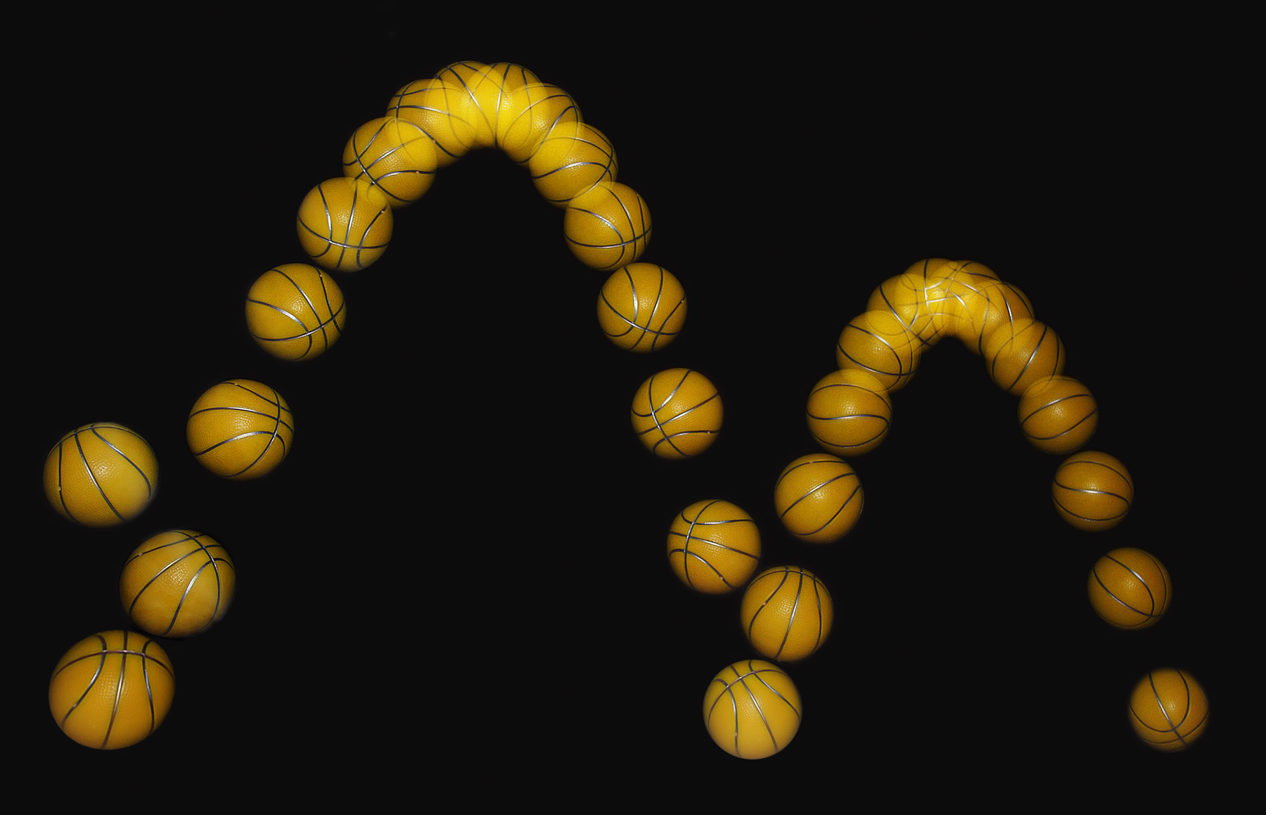 A bouncing ball captured with a stroboscopic flash at 25 images per second. Note that the ball becomes significantly non-spherical after each bounce, especially after the first. That, along with spin and air-resistance, causes the curve swept out to deviate slightly from the expected perfect parabola. Spin also causes the angle of first bounce to be shallower than expected. As a ball falls freely under the influence of gravity, it accelerates downward, its initial potential energy converting into kinetic energy. On impact with a hard surface the ball deforms, converting the kinetic energy into elastic potential energy. As the ball springs back, the energy converts back firstly to kinetic energy and then as the ball re-gains height into potential energy. Energy losses due to inelastic deformation and air resistance cause each successive bounce to be lower than the last.The image is of a child's ball about the size of a tennis ball.